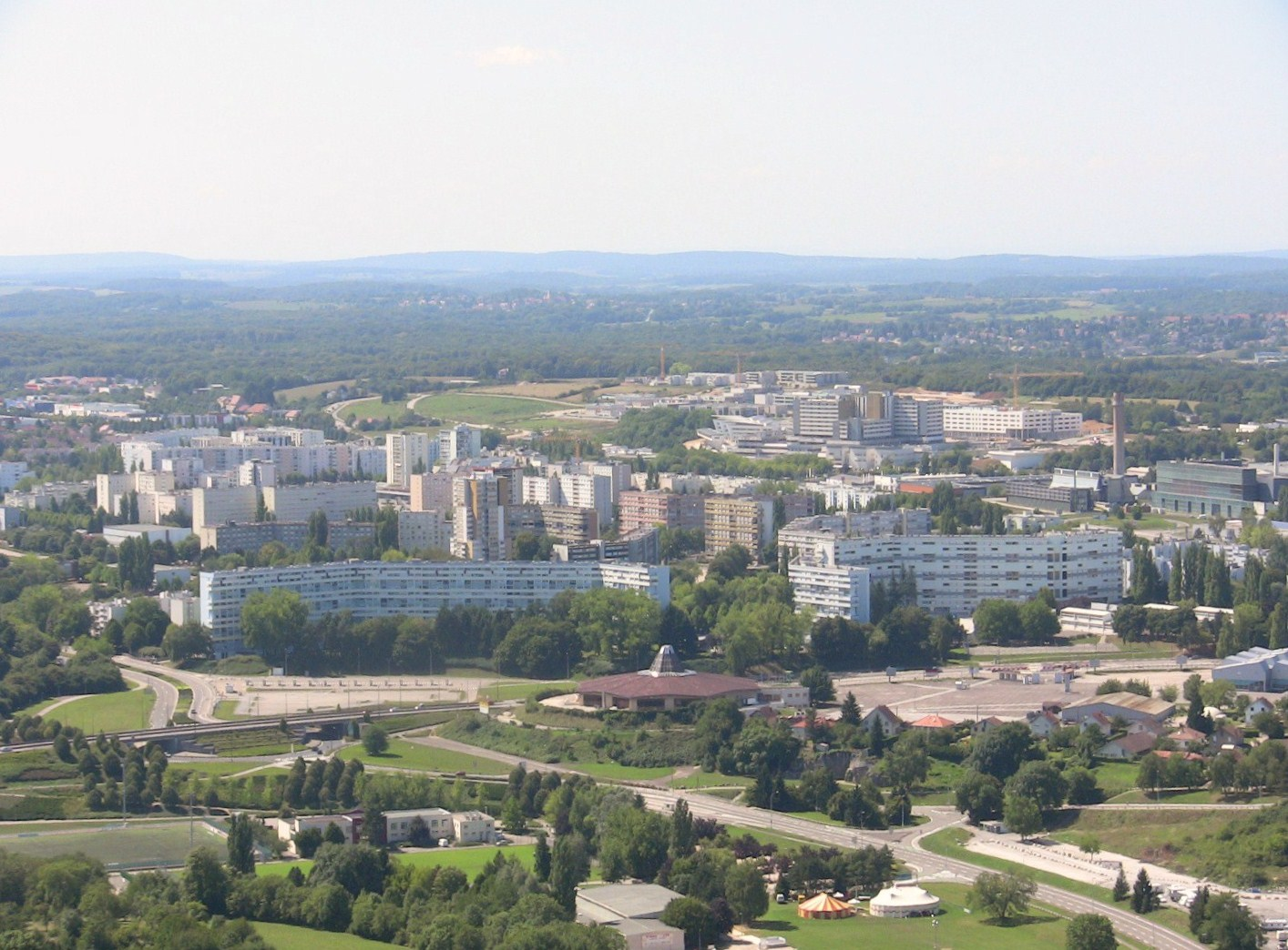 Building of the area of Planoise from the hill of rosemont, in Besançon (France)